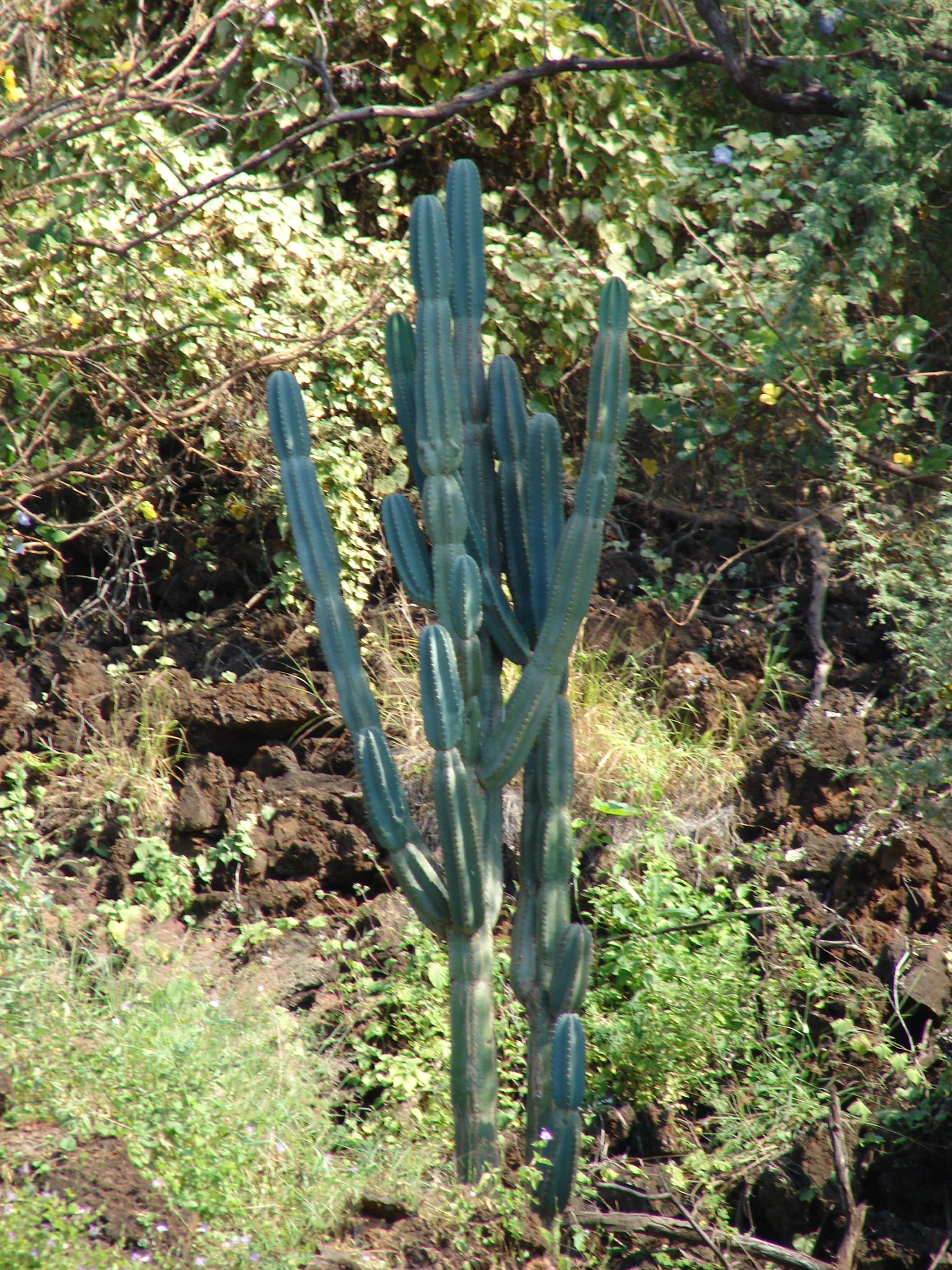 Cereus uruguayanus (habit). Location: Maui, palauea